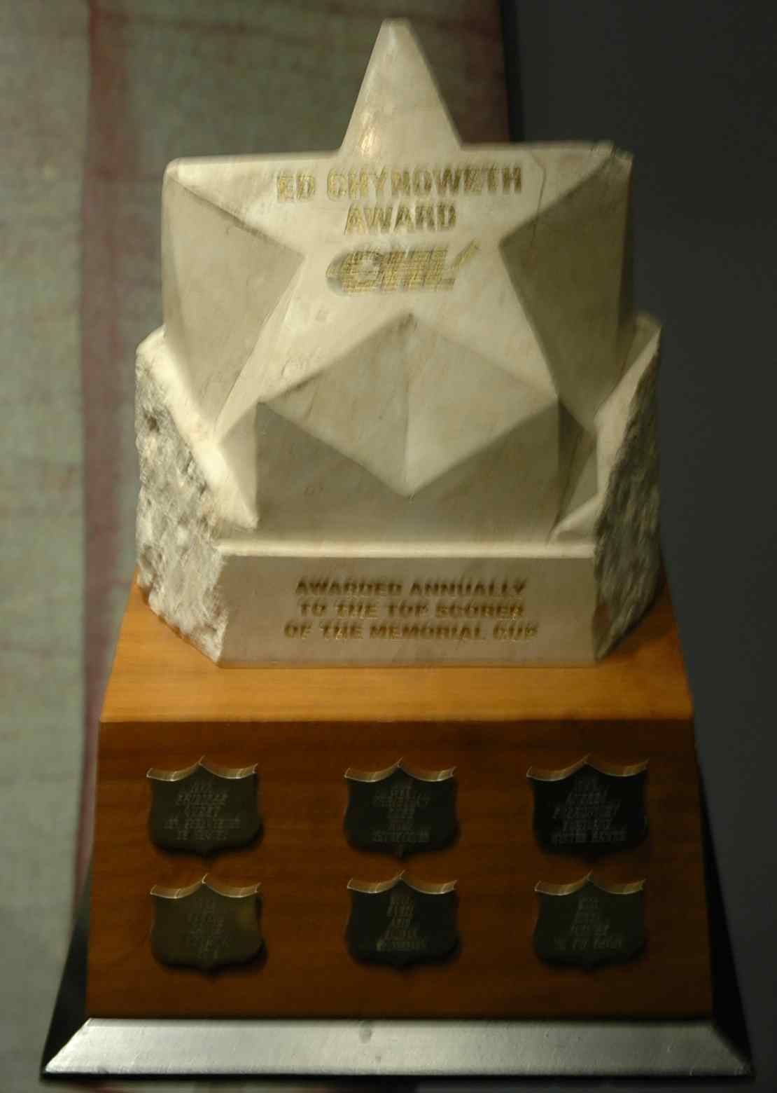 The Ed_Cynoweth_Award. An CHL Trophy.